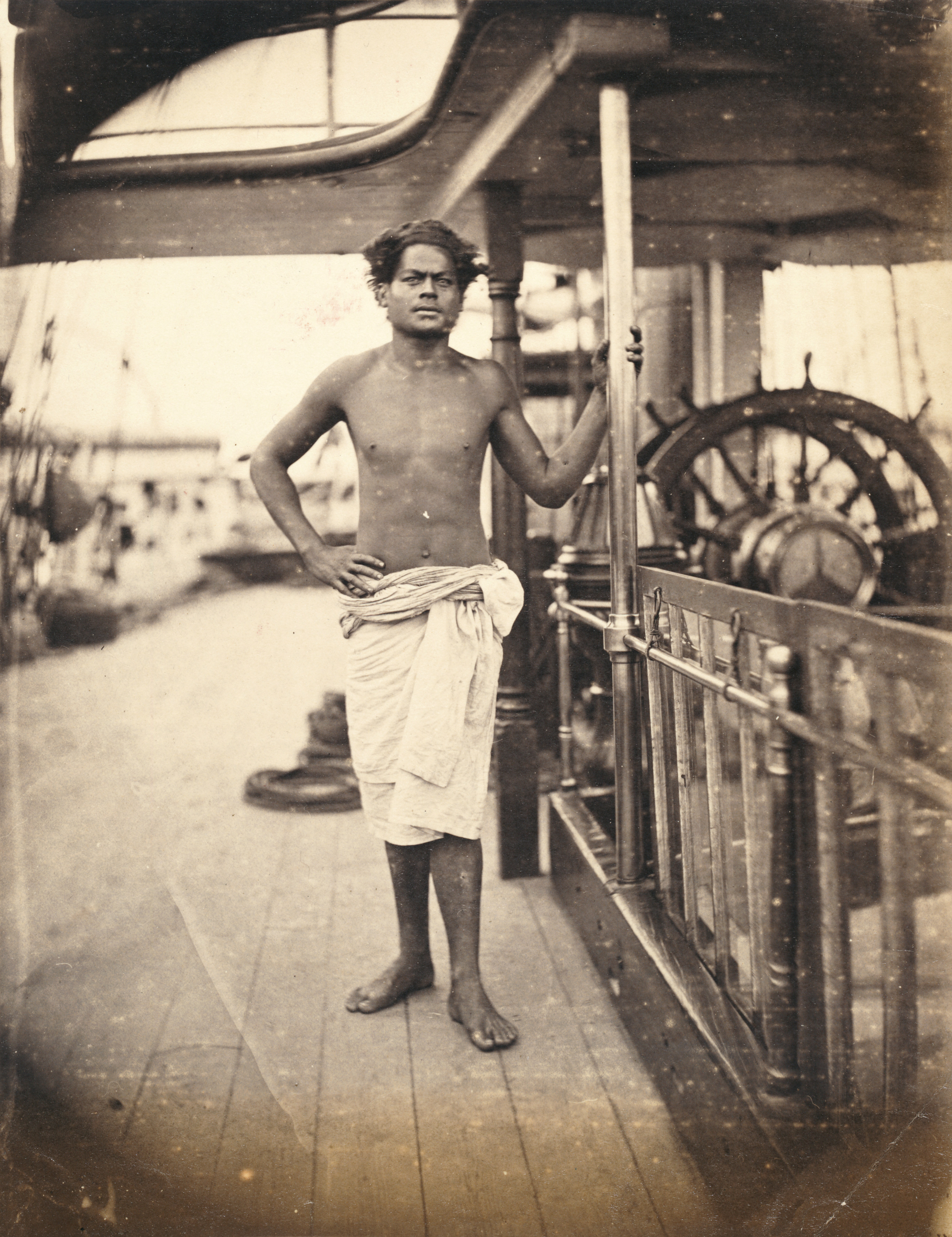 Photographed labled "one of the boats crew" and shows a Tongan seaman standing on the deck of an unidentified ship. Photographs taken, probably by Corporal C Newbold, between 19 and 22 July 1874. The Voyage of H.M.S. Challenger (1872-1876) was funded by the British Government for scientific purposes and seems to have been the first expedition to carry an official photographer as well as an official artist.